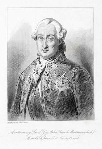 Guy André Pierre de Montmorency Laval Birthdate: September 21, 1723 Death: Died September 22, 1798 in Paris, Paris, Île-de-France, France